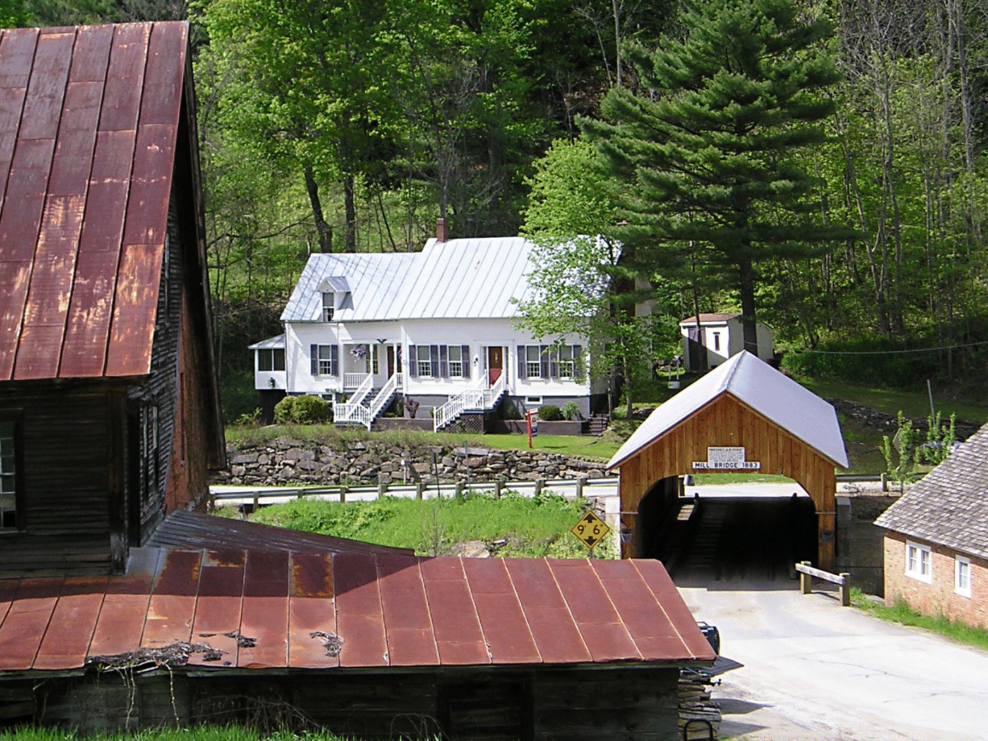 The Old Mill, Blacksmith Shop & Mill Bridge, Tunbridge, Vermont.